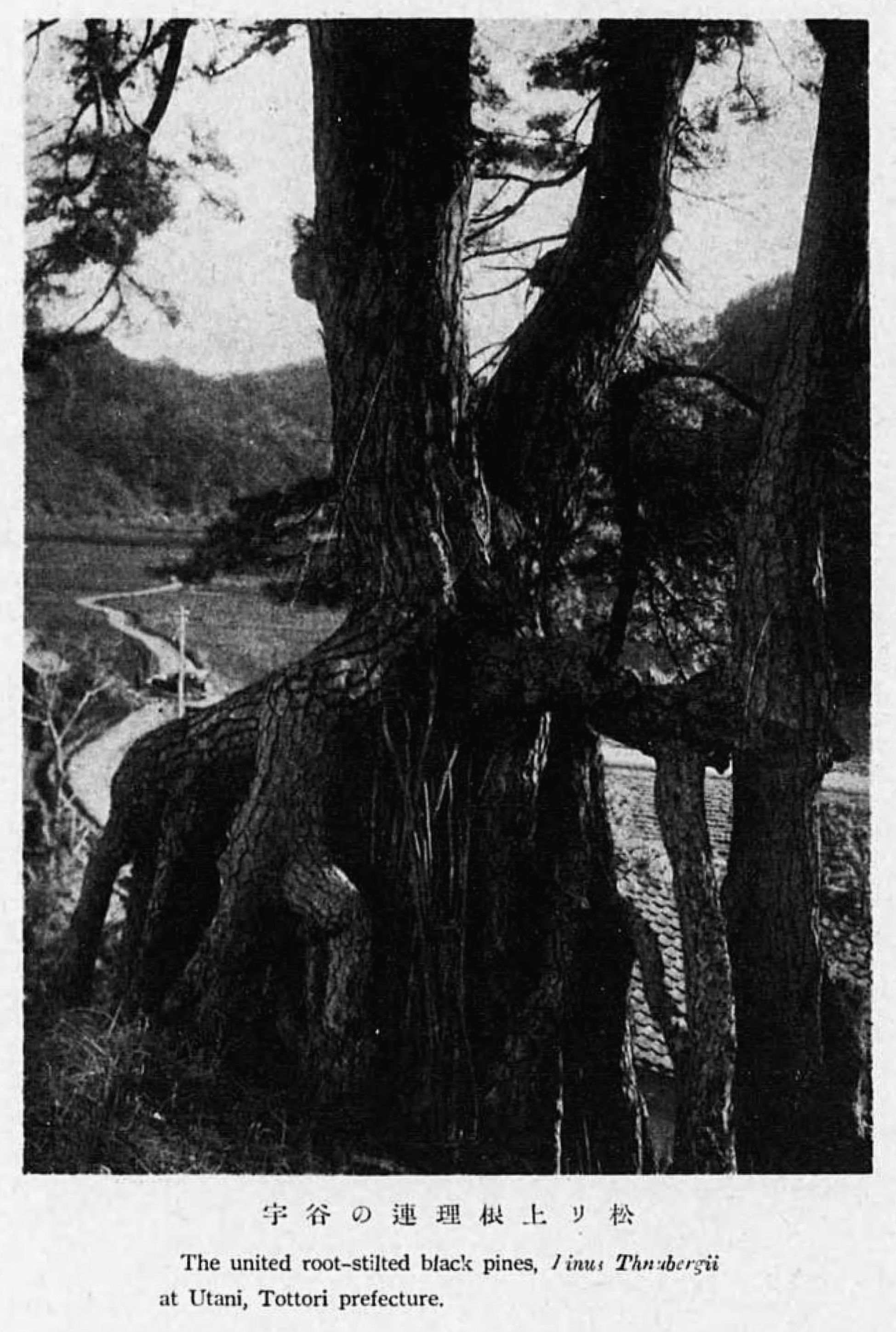 The united root-stilted black pines (Pinus thunbergii) at Utani, Tottori prefecture, Japan.